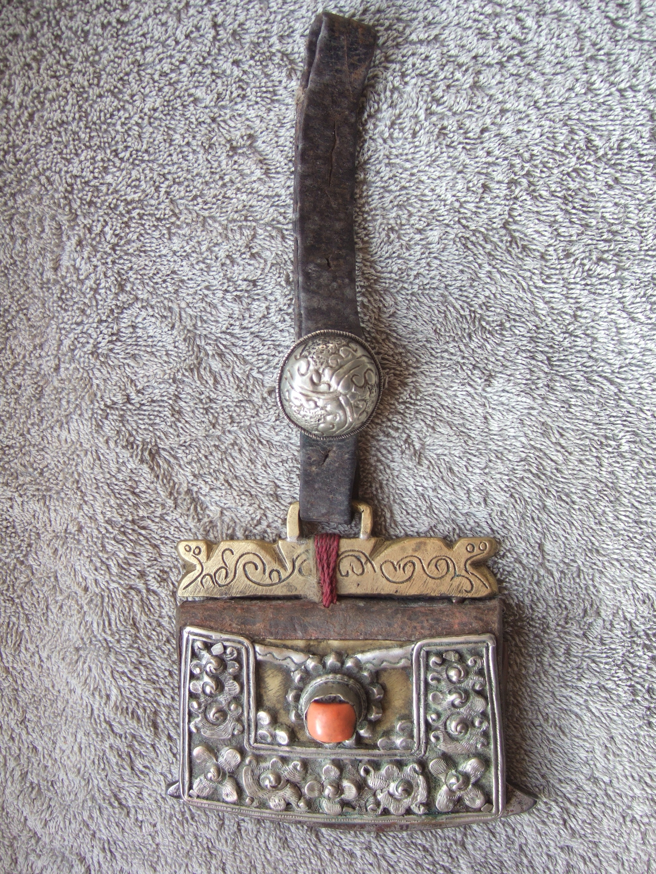 Tibetan flintpoach, decorated with silver in répoussée and red coral, 20th century